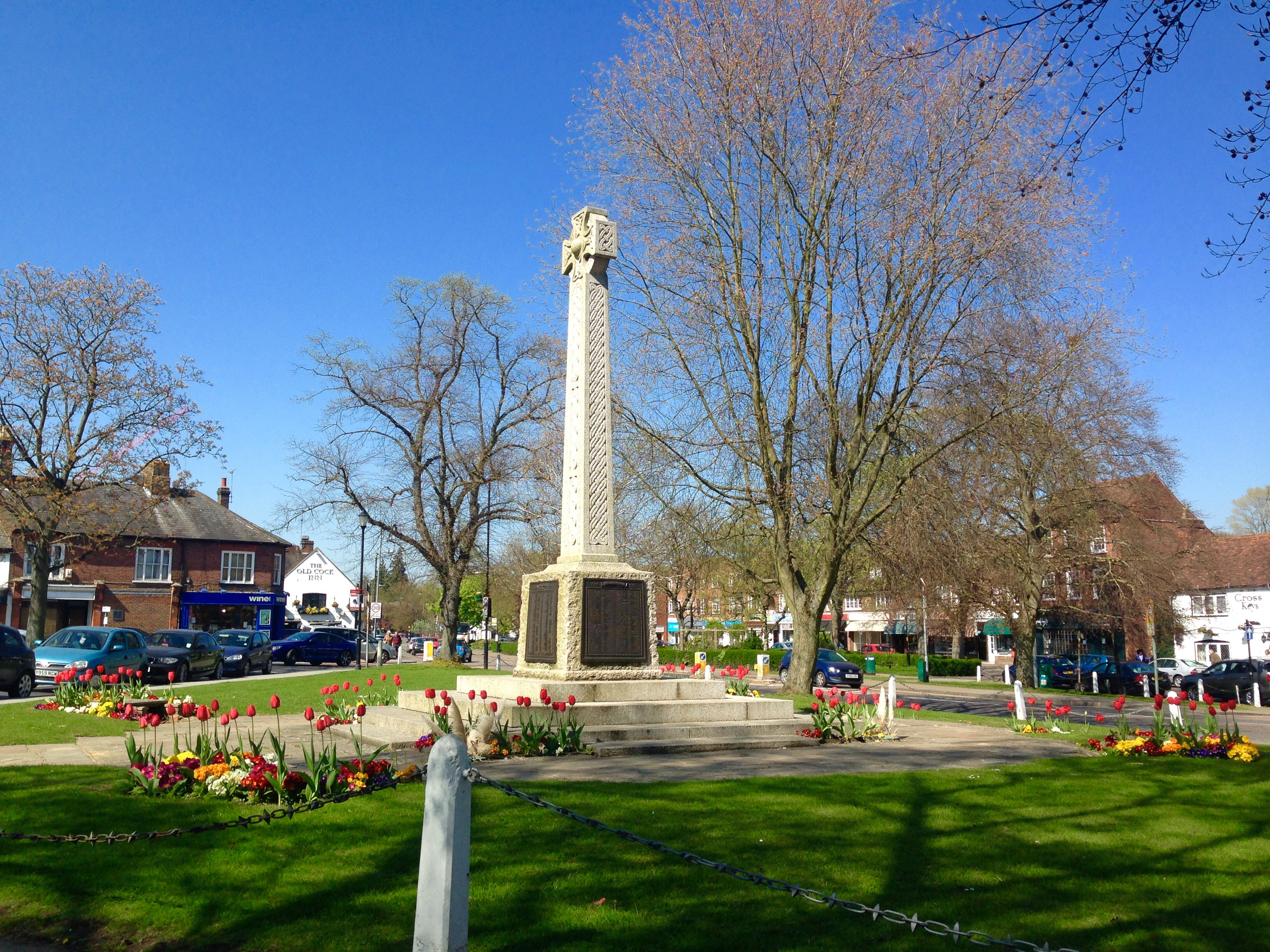 Church Green during Spring